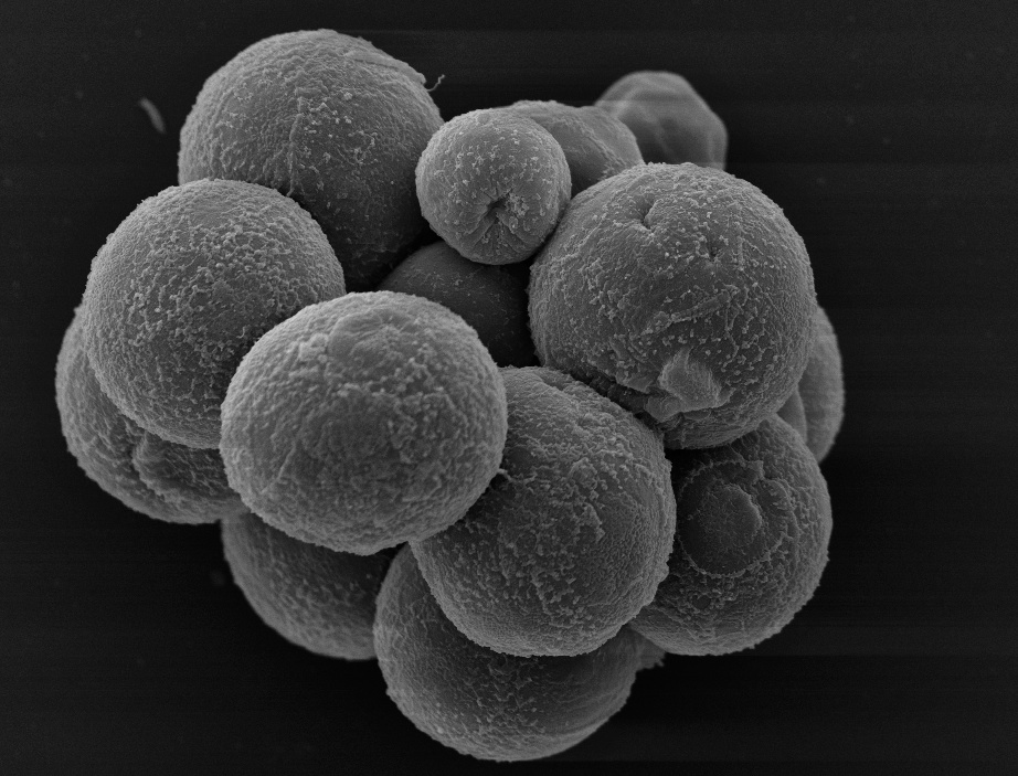 Sphaeroforma arctica, an Ichthyosporean, from